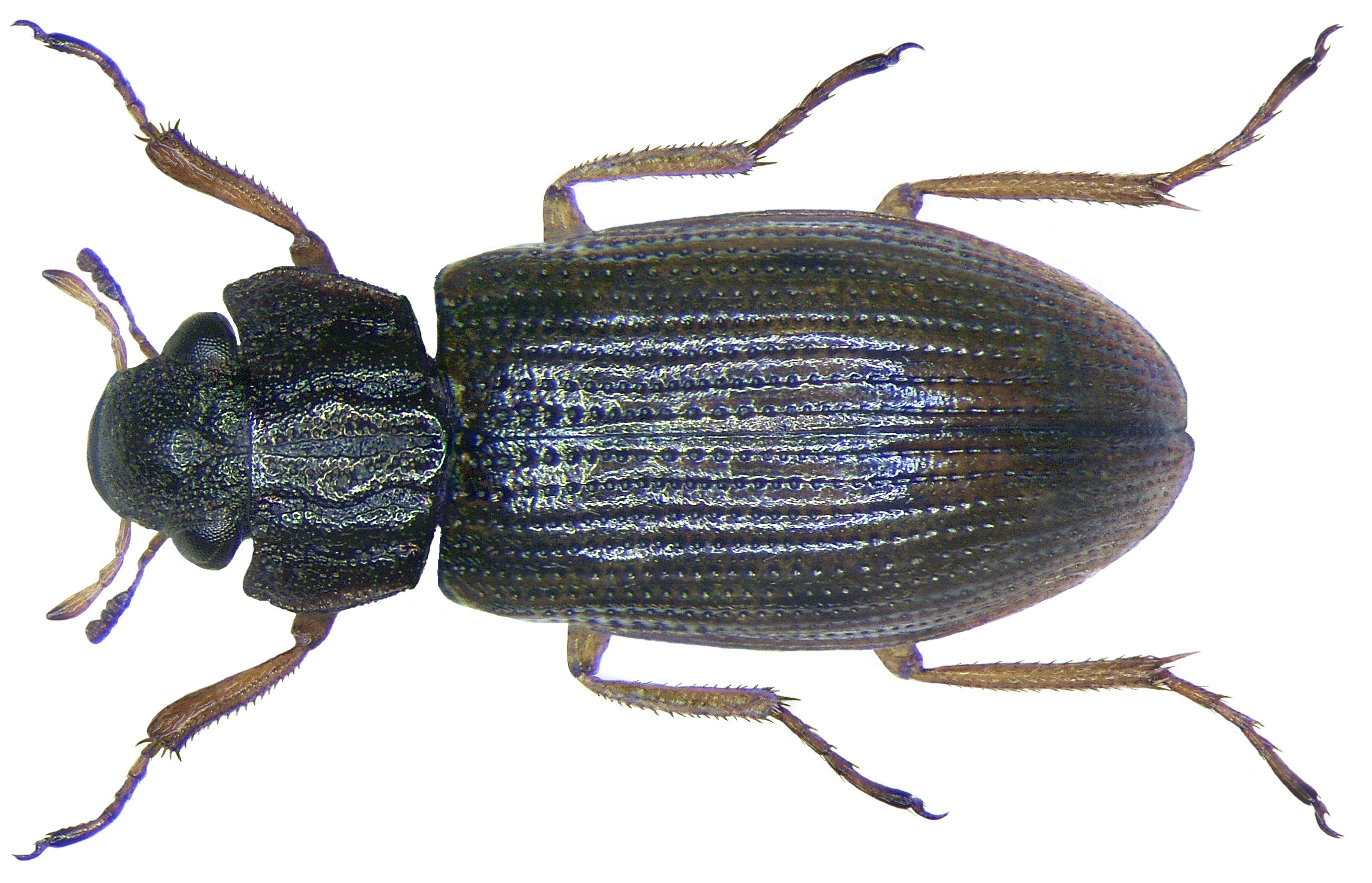 Helophorus flavipes a beetle in the family Hydrophilidae Familie: Hydrophilidae Grösse: 3,8-4,8 mm Verbreitung: Europa Ökologie: überall häufig bis sehr häufig in Gewässern Fundort: Germania, Oberfranken, Selbitz leg.det. U.Schmidt, 2005 Foto: U.Schmidt, 2008